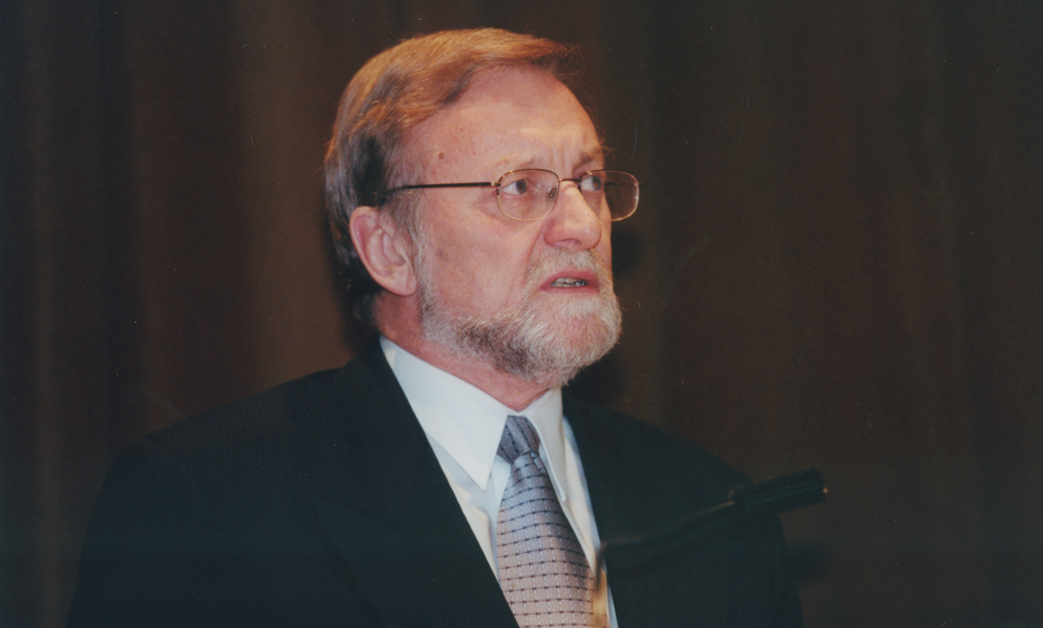 Australian politician, guest lecturer at LSE on human rights. IMAGELIBRARY/830 Persistent URL